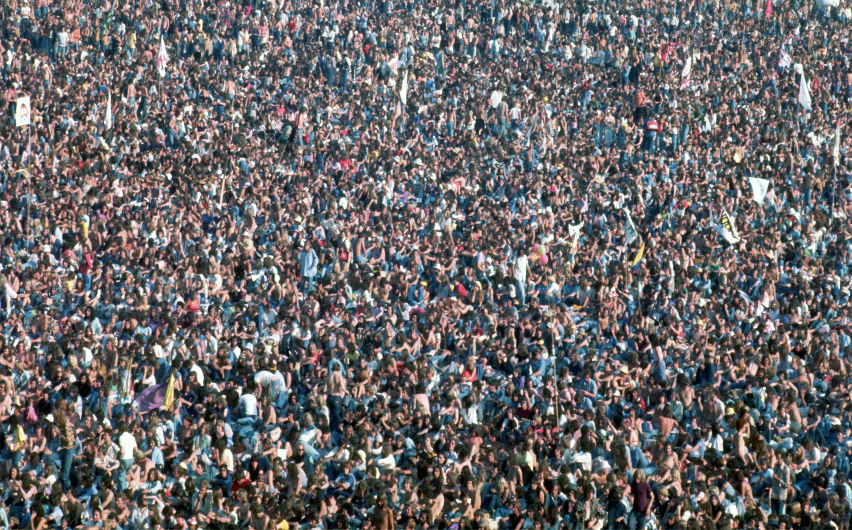 Crowd at Knebworth House - 1976 Rolling Stones, 10cc, Lynyrd Skynyrd,Todd Rundgren, estimated 120.000 people. To make this image it was necessary to climb the lighting tower with the camera on my arm because it did not use handle, after making this photo I tried to climb the last stage and was surprised by a foot on my fingers, something like closing the car door on them... I remember deciding with one hand aching a lot and the other on the camera, nowadays I think it was worth it, unforgettable day ...